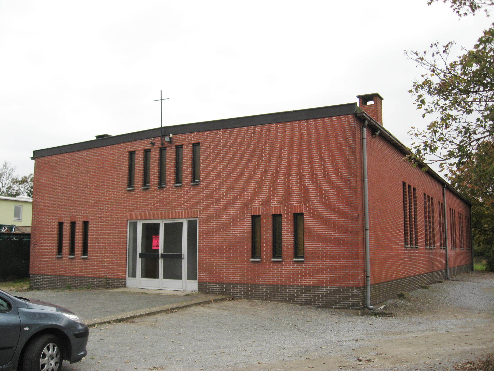 Church of Our Lady in the Campine in Lommel (Balendijk), Limburg, Belgium